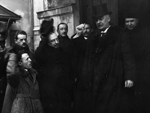 The exit of Professor Gabriel Narutowicz from the Polish Sejm after being proclaimed president of the republic.